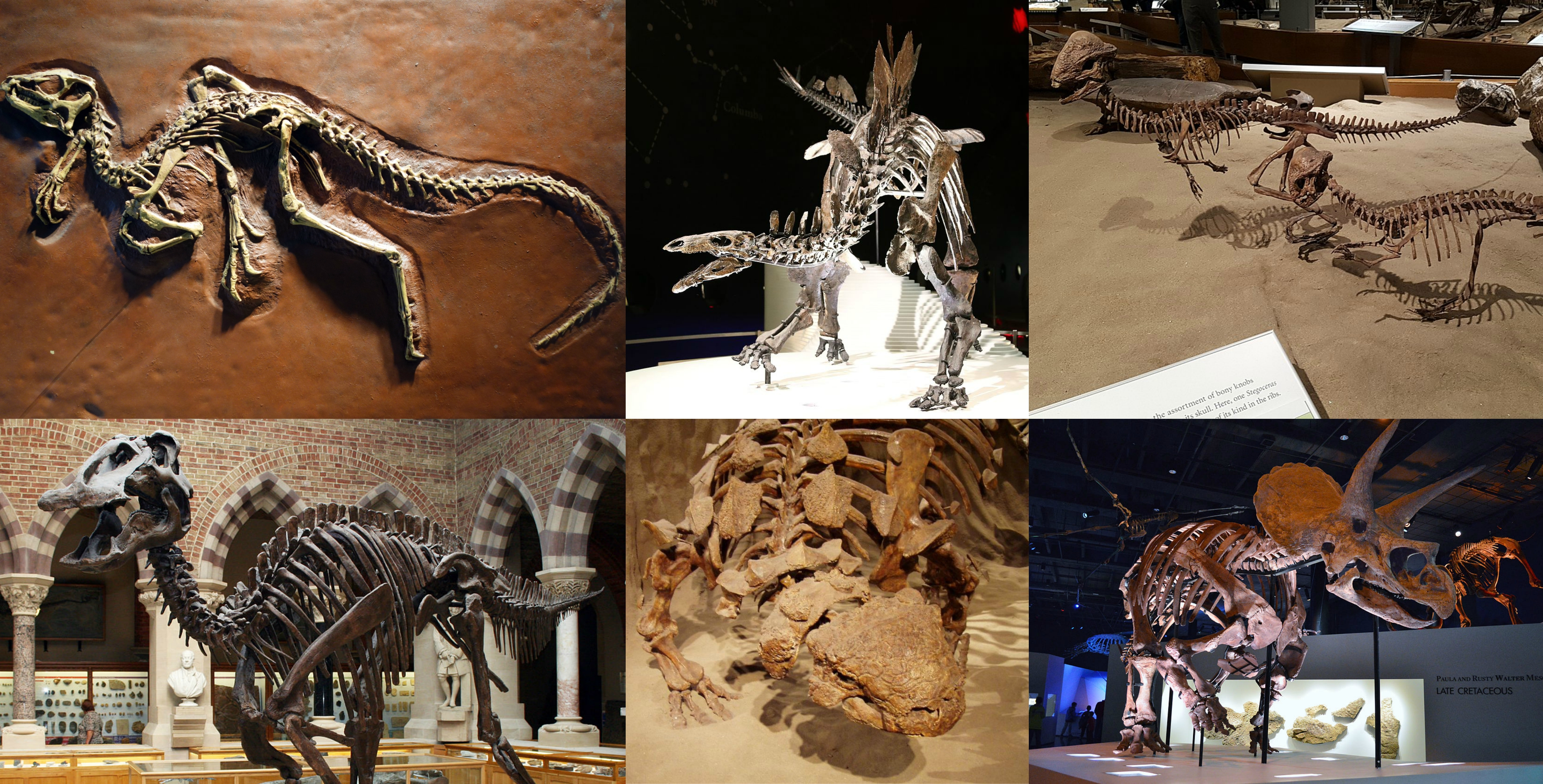 Montage of ornithischians. Clockwise from upper left: Heterodontosaurus tucki, Stegosaurus stenops, Stegoceras validum, Triceratops horridus, Scolosaurus thronus, and Edmontosaurus annectens. This is a collection of six works already found in Wikimedia Commons: File:Heterodontosaurus tucki cast - University of California Museum of Paleontology - Berkeley, CA - DSC04696.JPG File:Stegosaurus (Natural History Museum, London).jpg File:Euoplocephalus Royal Tyrell.jpg File:Oxford Edmontosaurus.jpg File:Royal Tyrrell Museum Stegoceras.jpg File:Triceratops Specimen at the Houston Museum of Natural Science.JPG All of them are either under a free license already in Wikimedia Commons or in the public domain